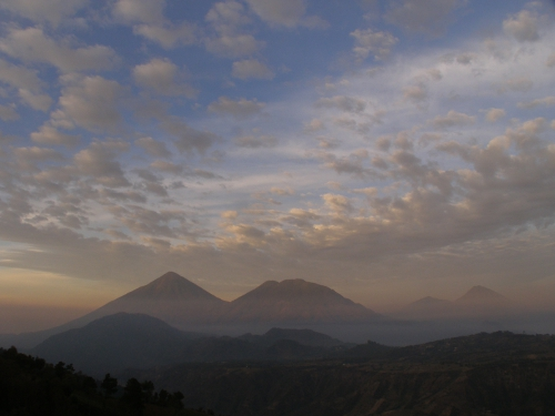 The volcanoes of Lake Atitlán; Atitlán (left center), Tolimán (middle), and San Pedro (far right), taken at sunrise from near Pachimulin.